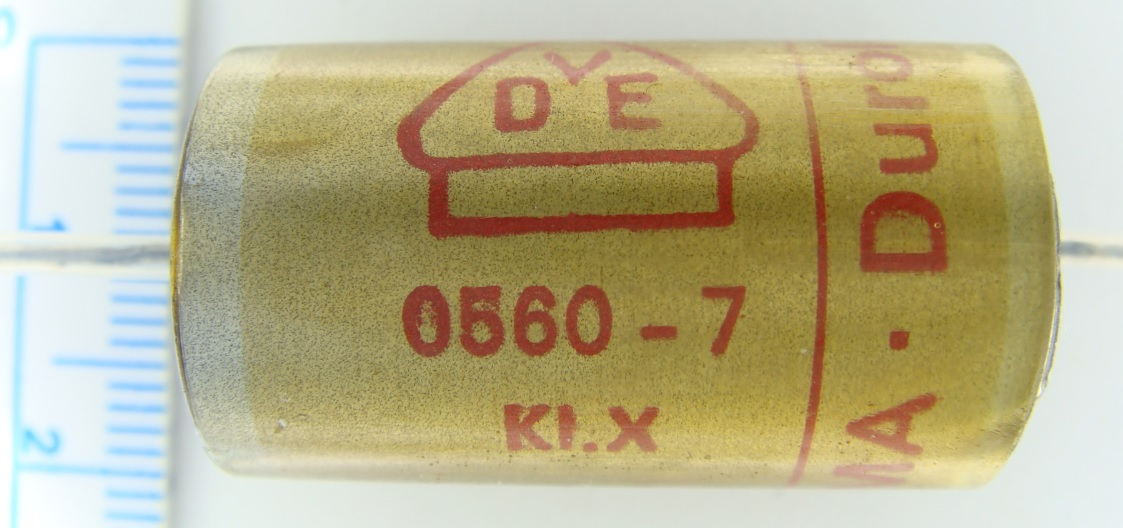 Klasse X capacitor category according to VDE 0560-7. Foil capacitor made in the 1980s.